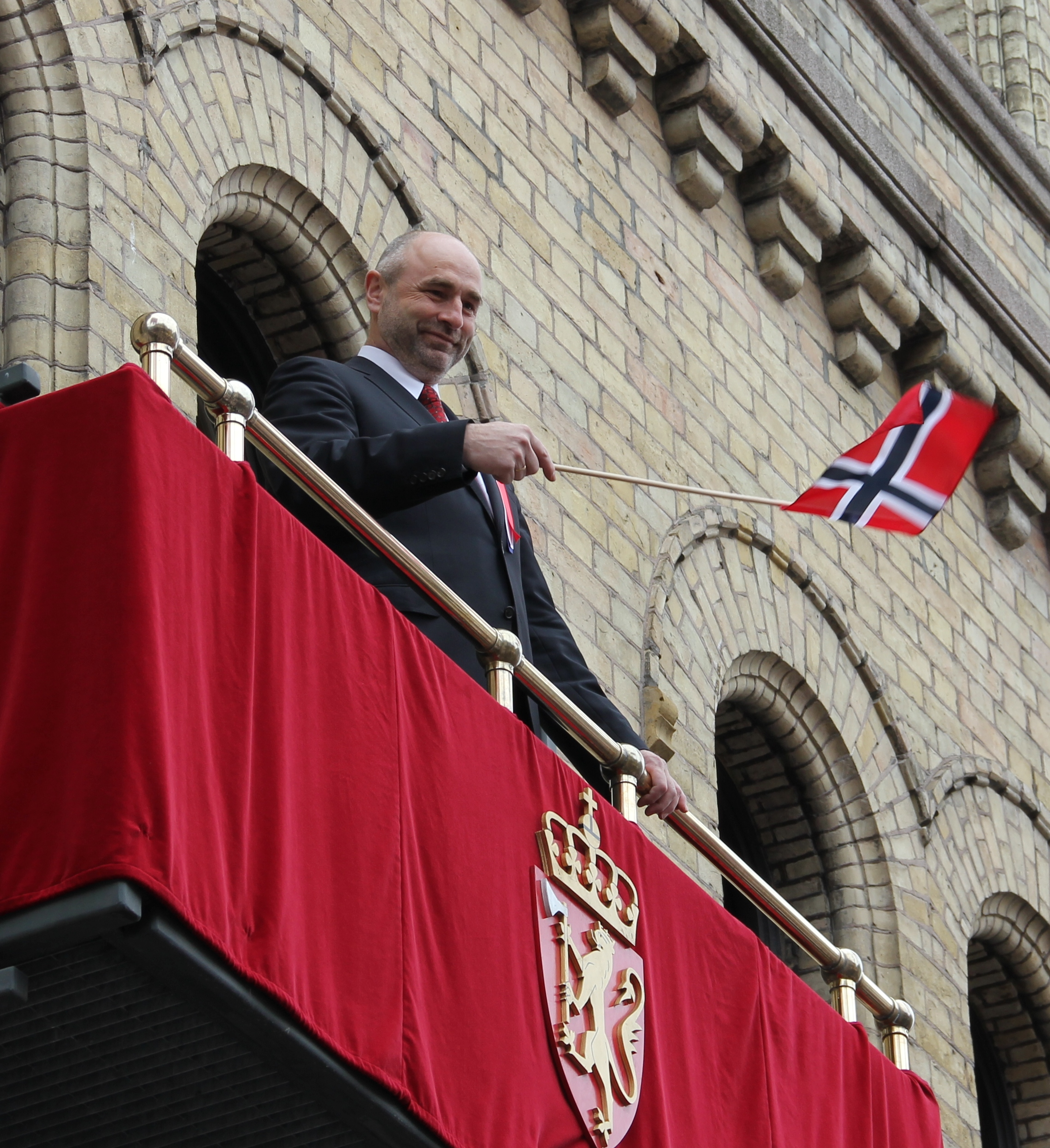 Minister Dag Terje Andersen on Stortingets balcony in Oslo om Norwegian Constitution Day, May 17.